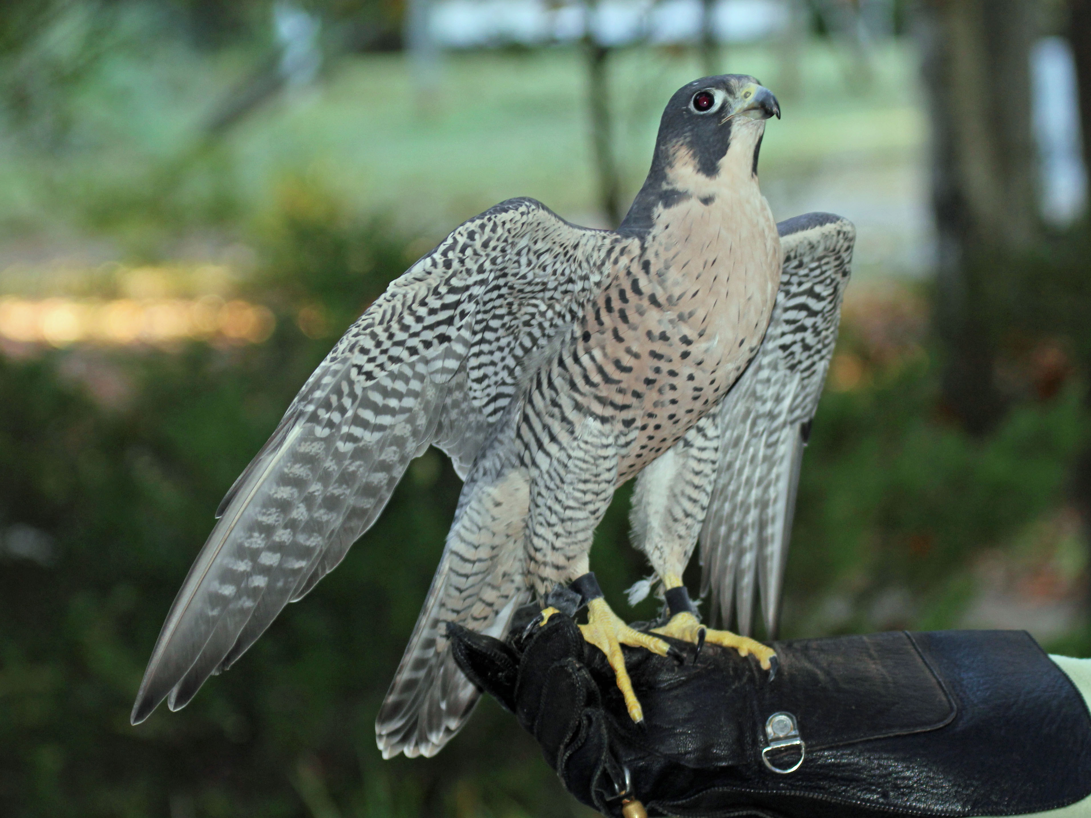 Peregrine Falcon (Falco peregrinus) - Carolina Raptor Center at Huntersville, North Carolina